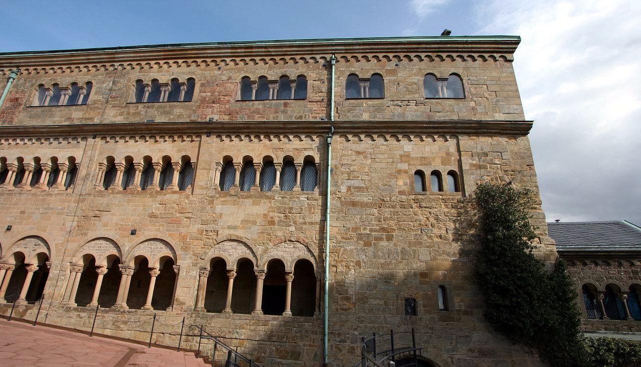 Palas or Great Hall of Wartburg near Eisenach, Germany